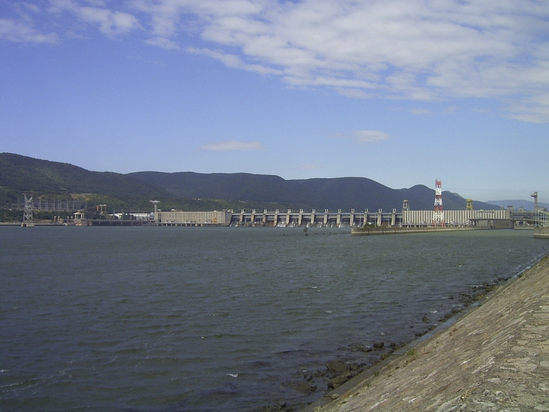 Iron Gate I Hydroelectric Power Station; view from downstream Romanian side towards the dam (left parts in Serbia), 400 kV overhead power line crossing